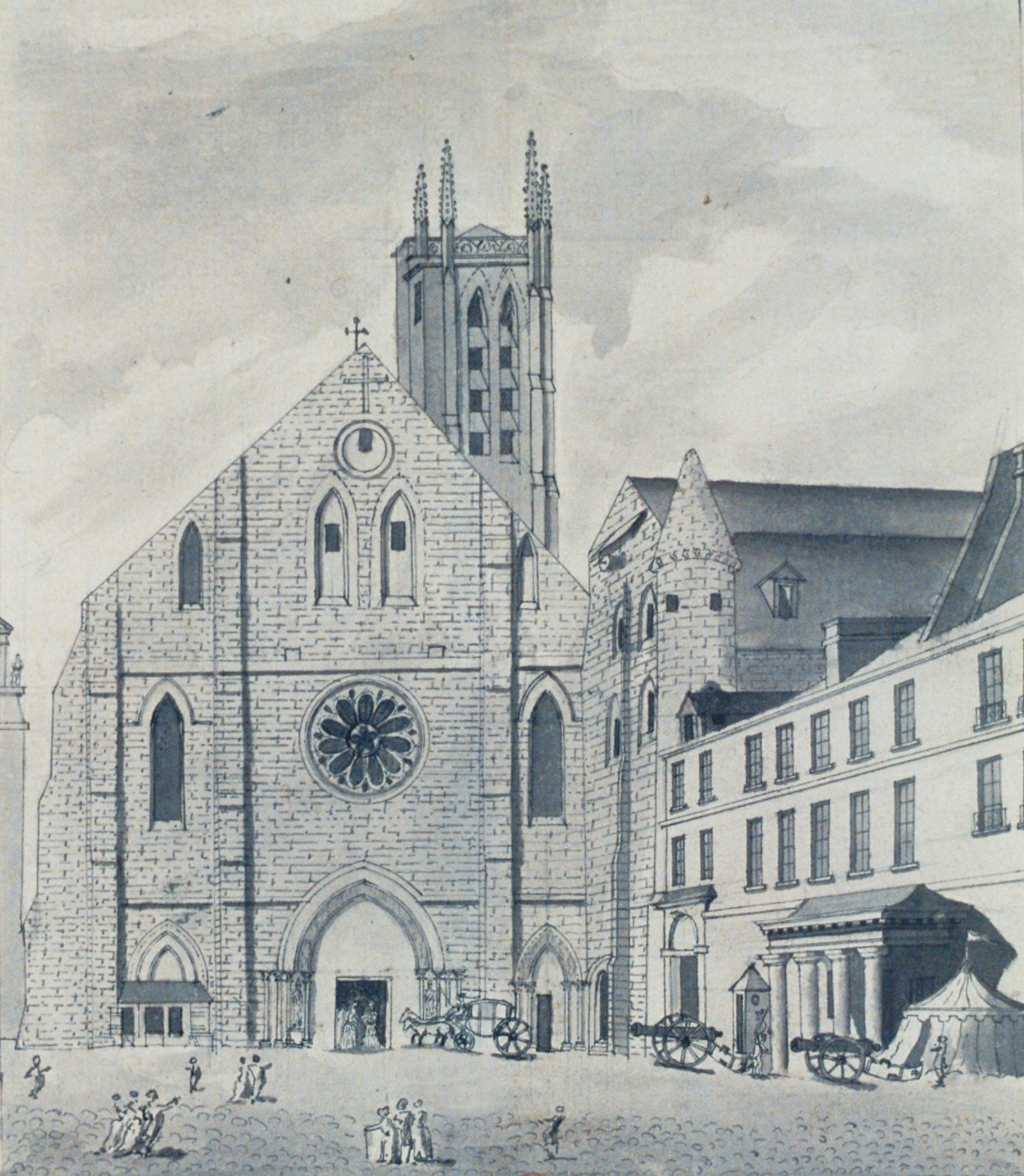 Abbey of Sainte-Genevieve